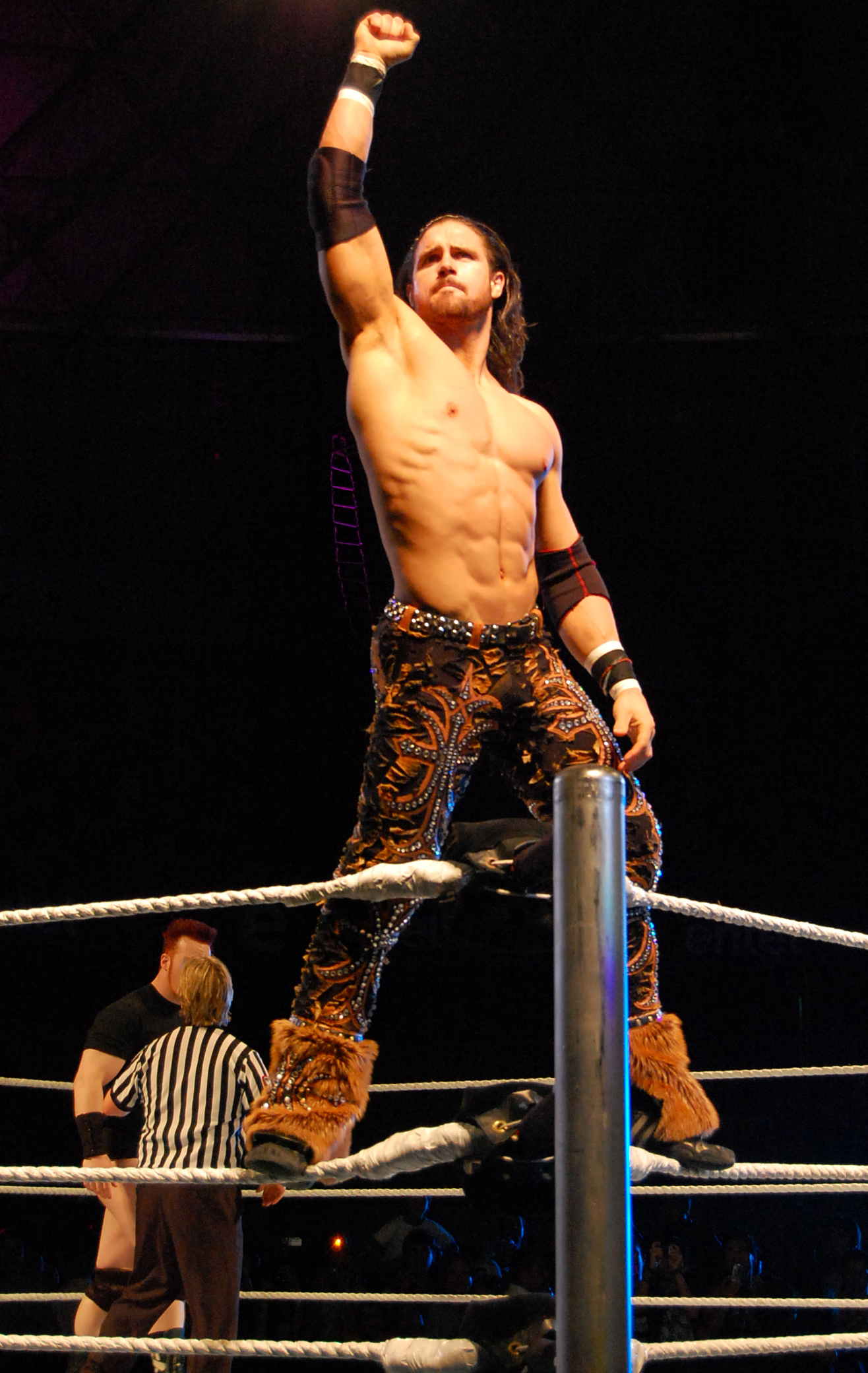 John Morrison en Chile